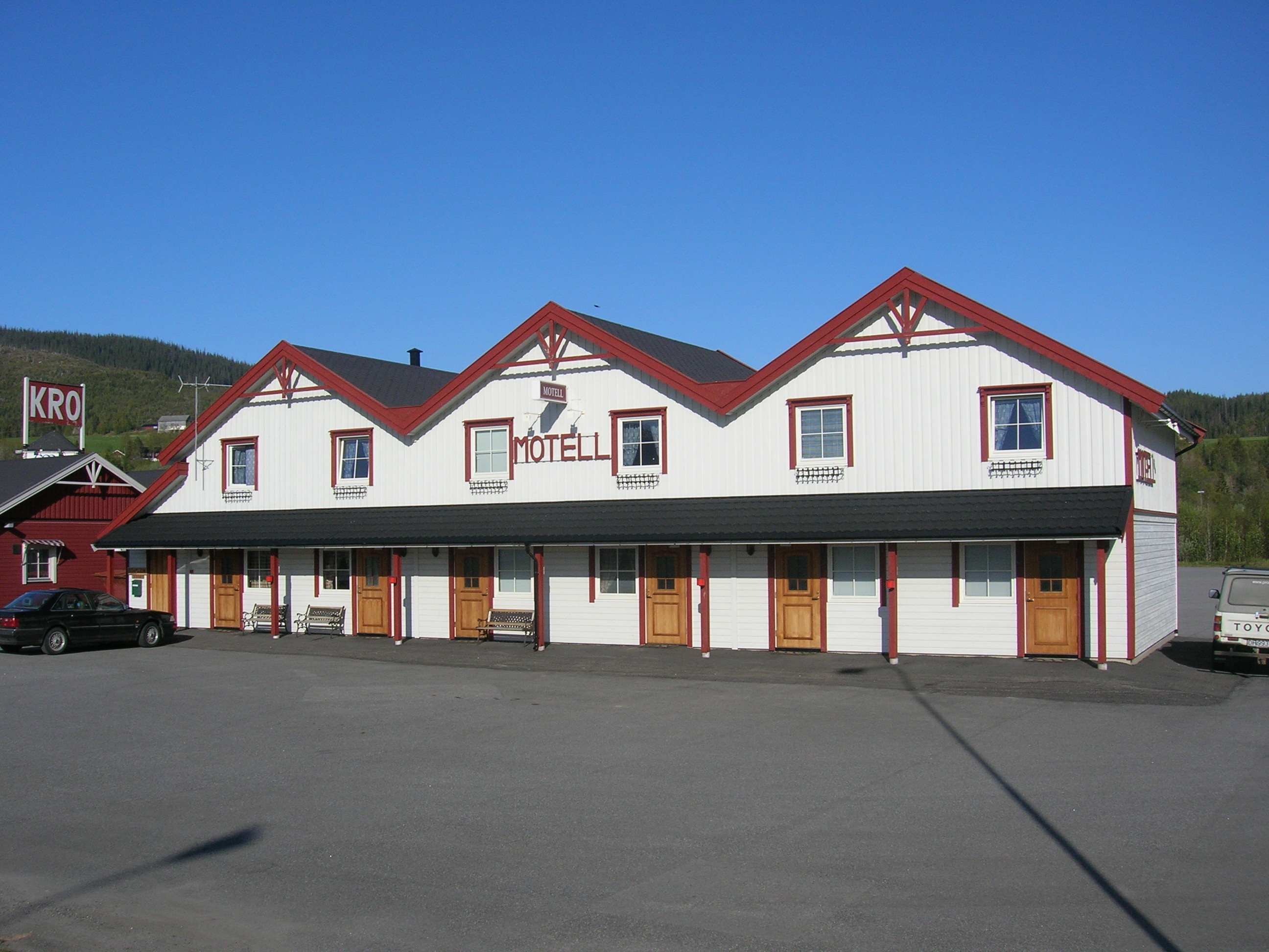 Bjerka Motel in Bjerka, Hemnes municipality, Norway. Photo on 29 May, 2008 with a Nikon Coolpix 5600 5,1 Megapixel camera.